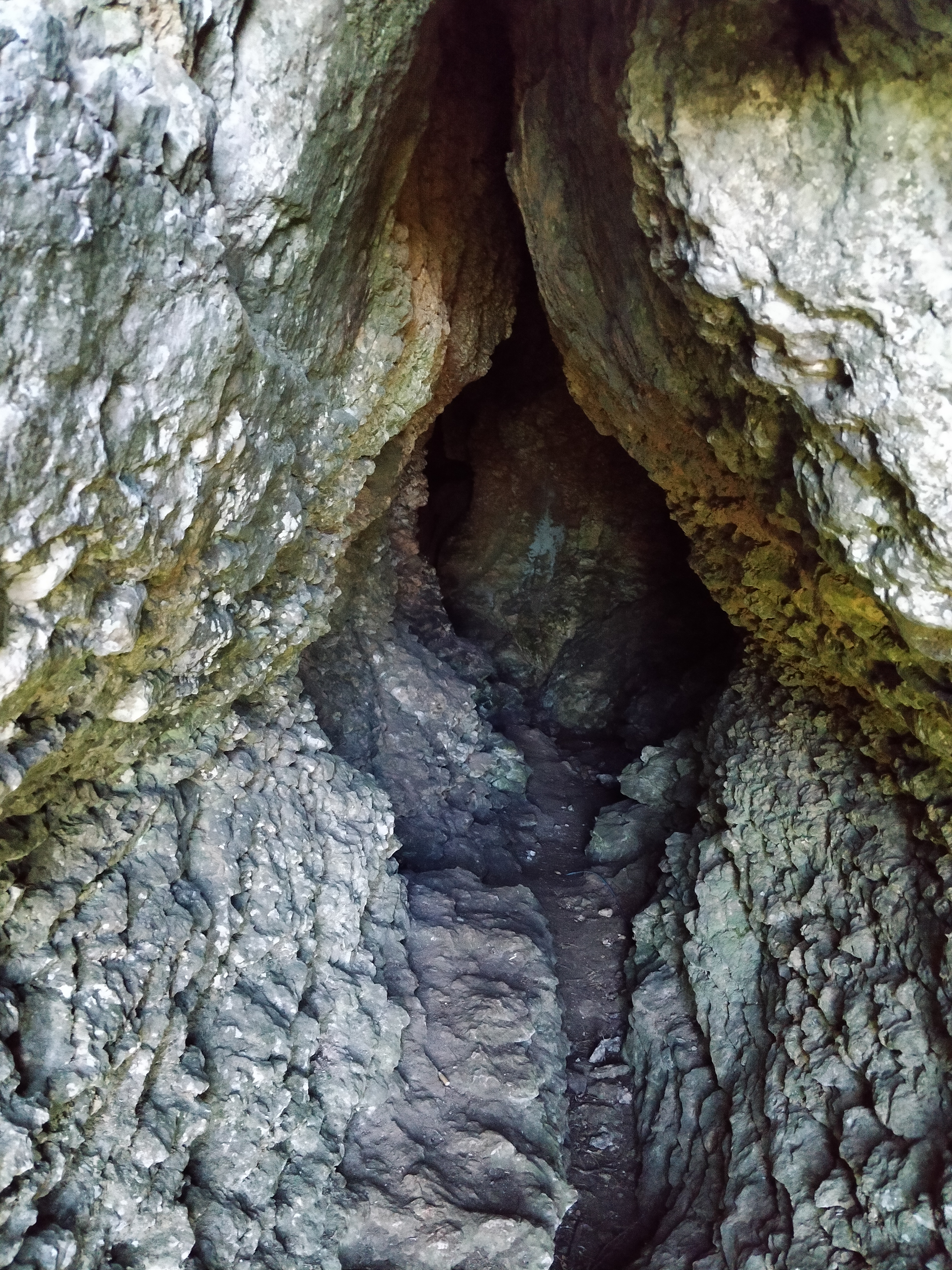 View of the Cave of Salemas in Loures, Portugal